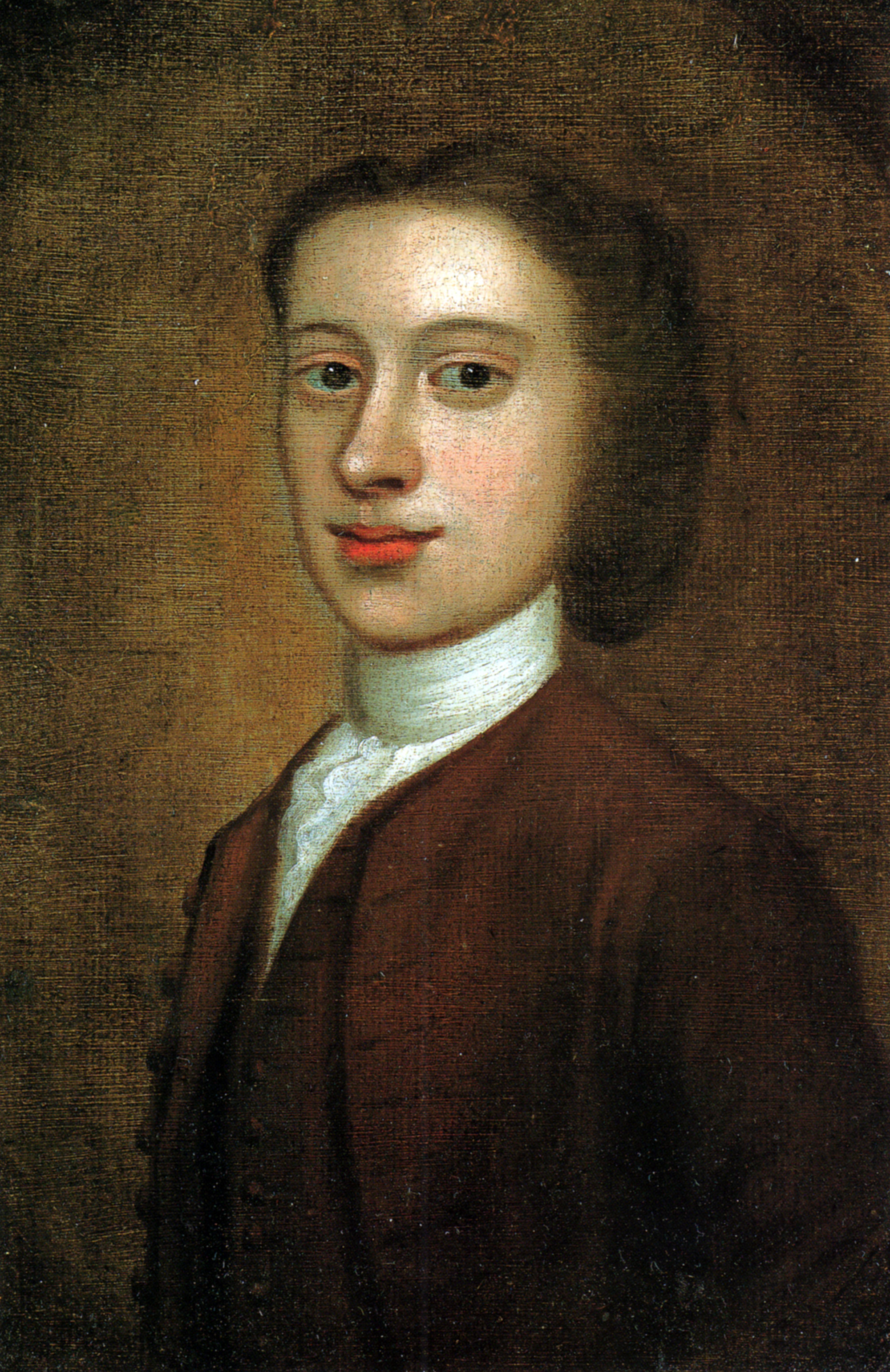 Self-portrait by Sydney Parkinson, a painter who served as a botanical illustrator on James Cook's Pacific crossing, 1768-1771